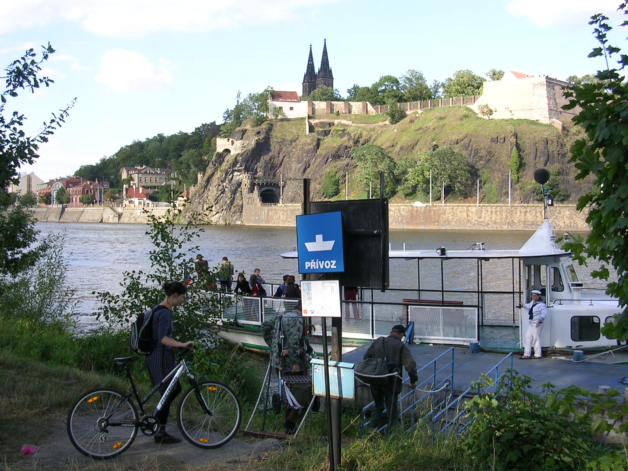 Vyšehrad and ferry P5, Prague, the Czech Republic.